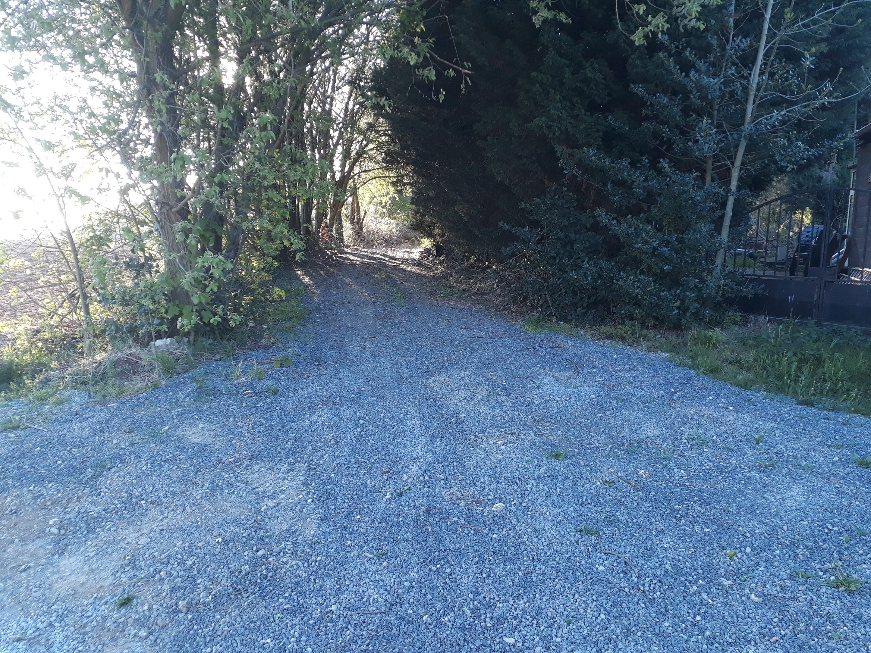 Vottem 44 p